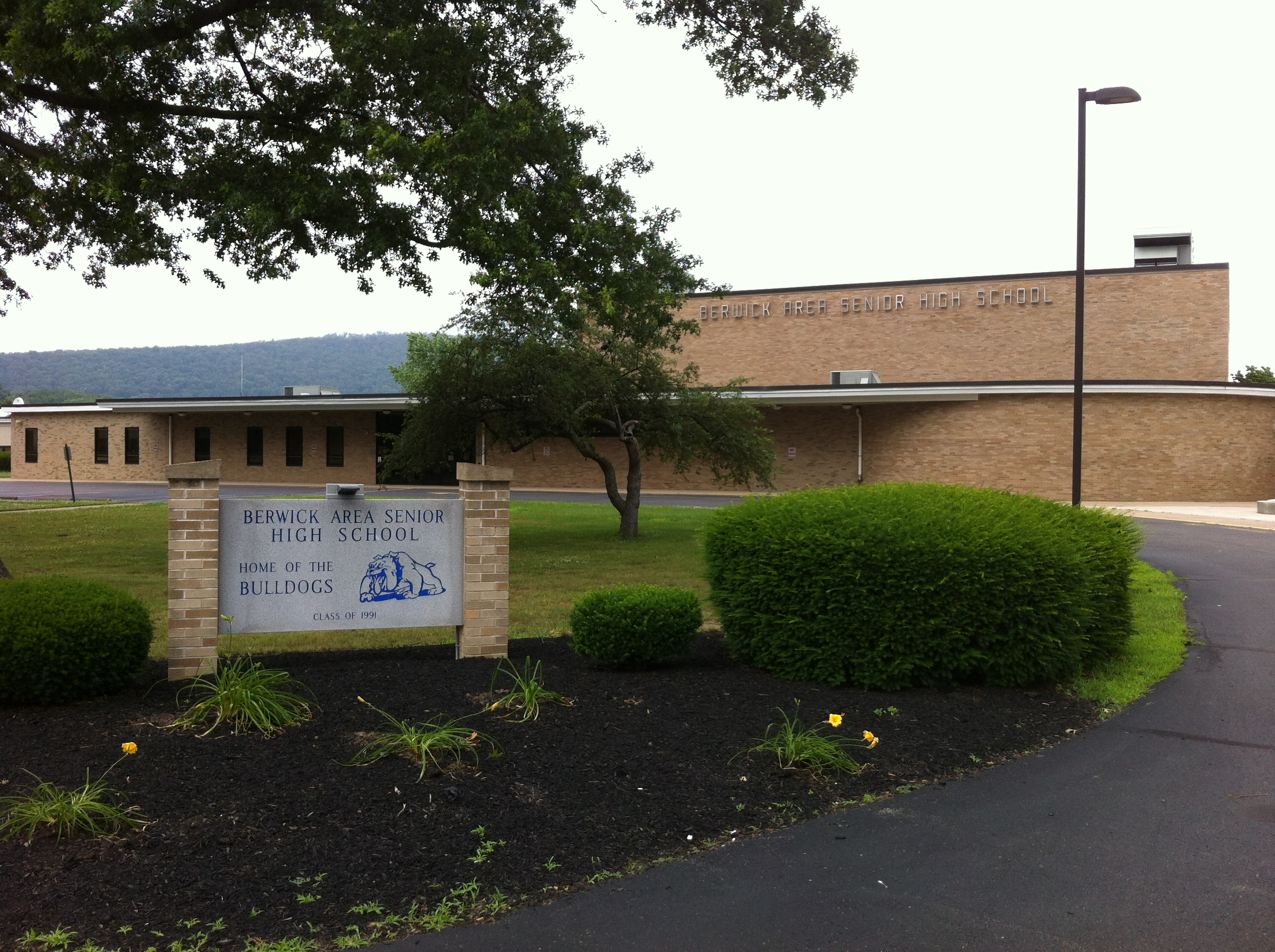 Front of high school from Fowler Ave